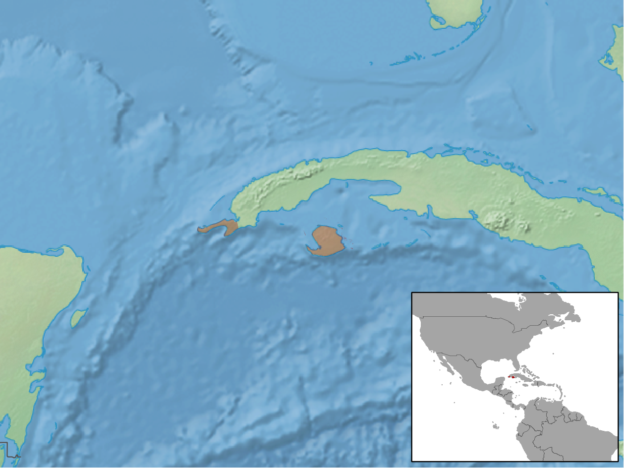 geographic distribution of Natalus primus